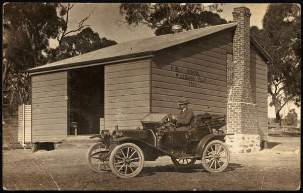 Photo of Mulligan's Flat School taken in around 1913.